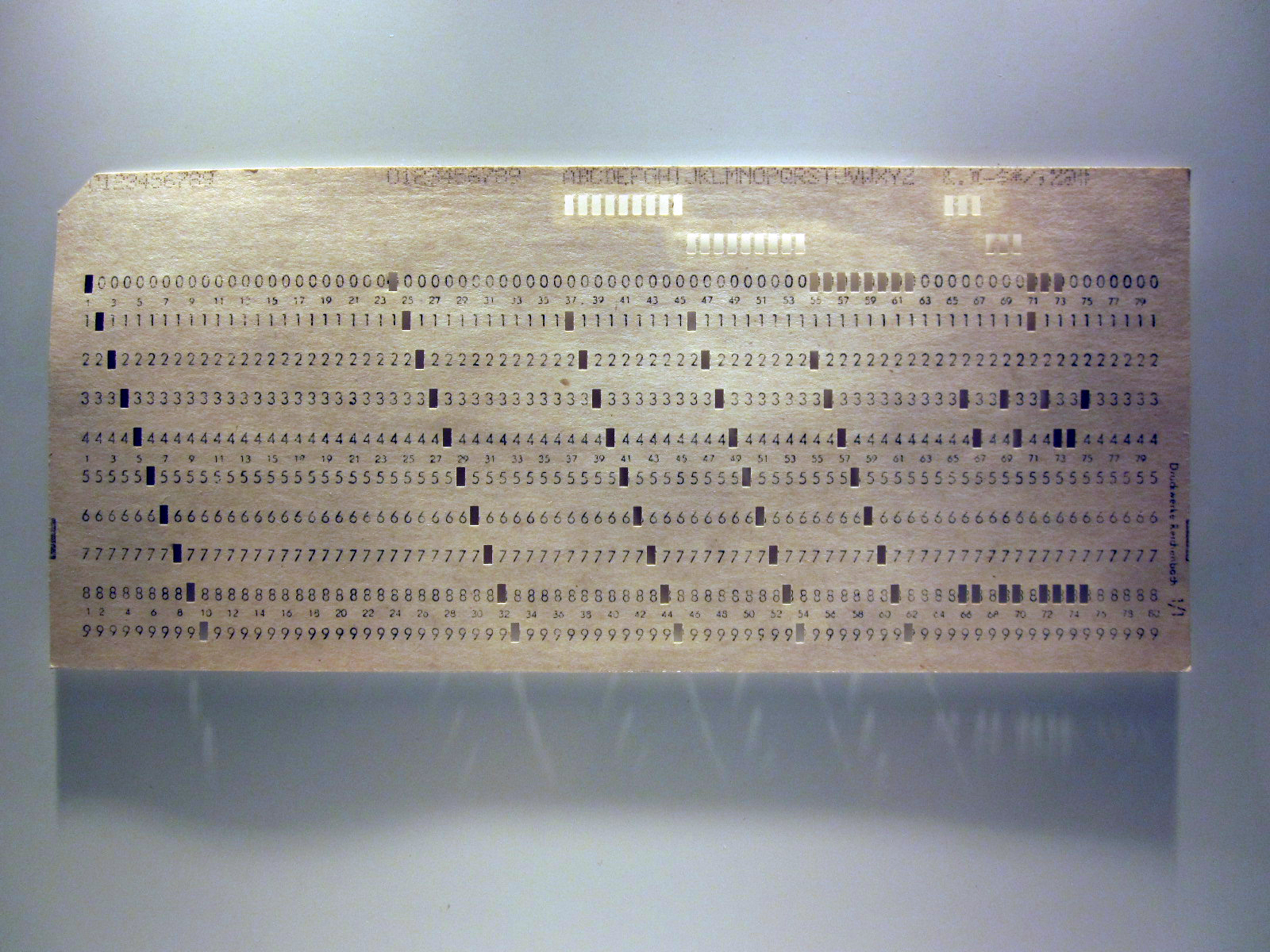 Punched card - Programs for the Z7 through Z10 in the 1950s years.